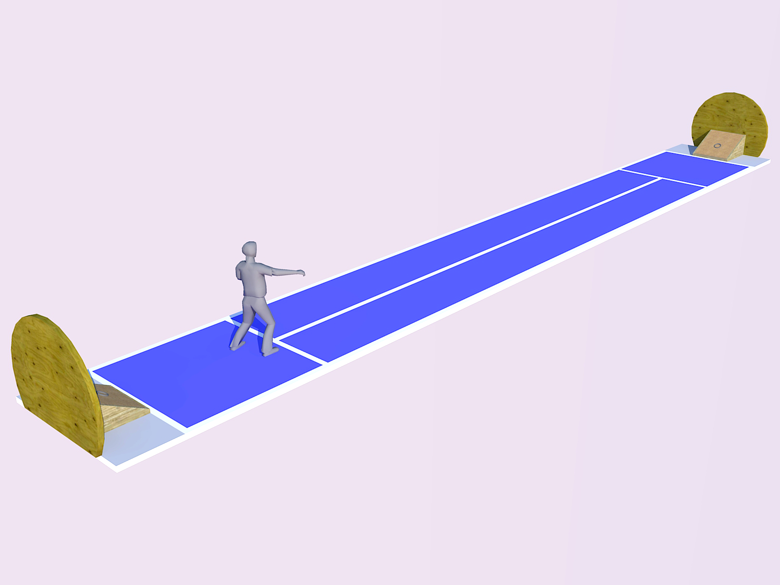 Diagram of a tejo field